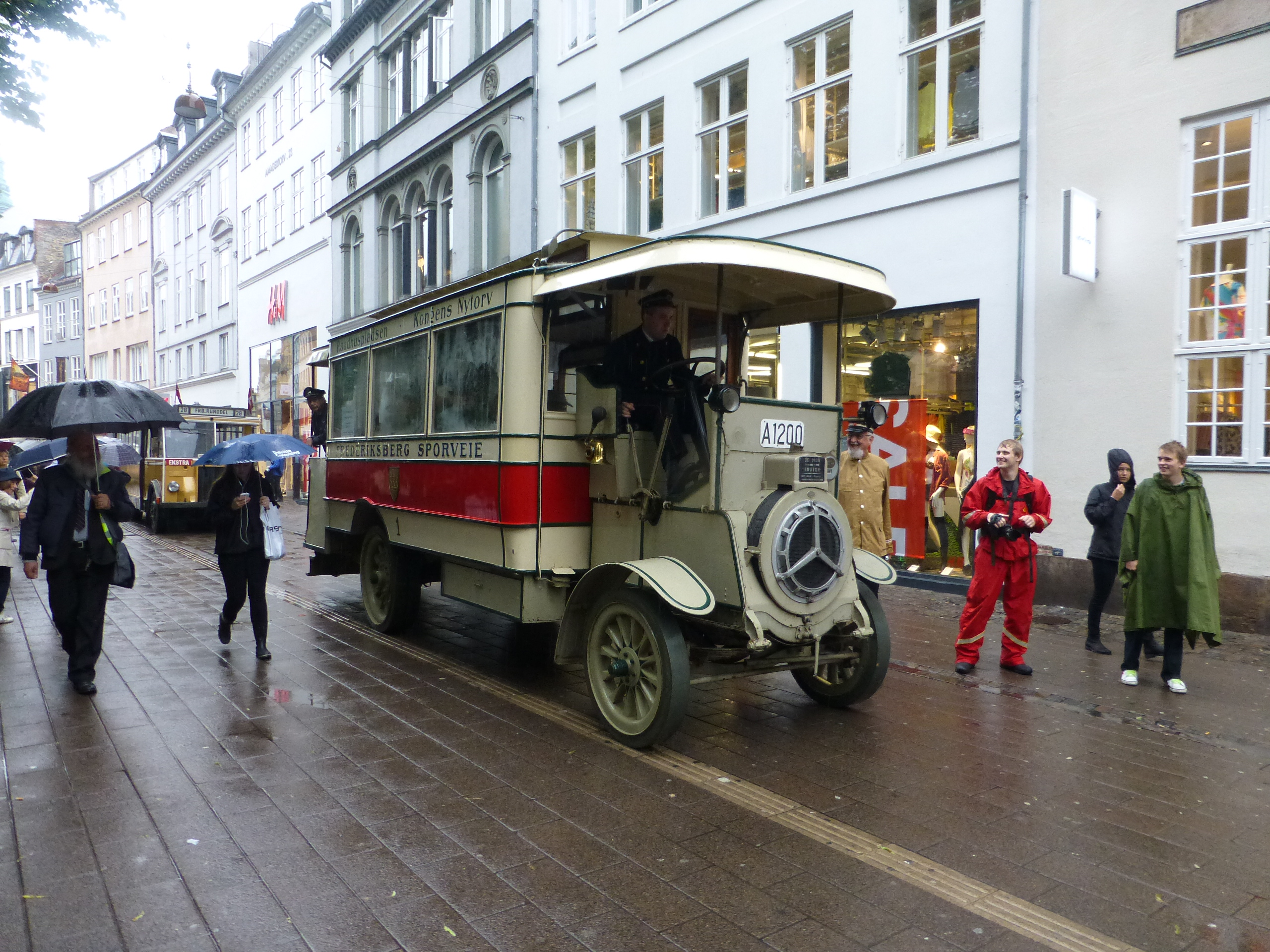 Bus cavalcade with buses from Sporvejsmuseet Skjoldenæsholm on the pedestrian street Strøget in Indre By in Copenhagen due to celebrating 100 years with motor buses in Copenhagen. FS 1 from 1913 on Amagertorv.